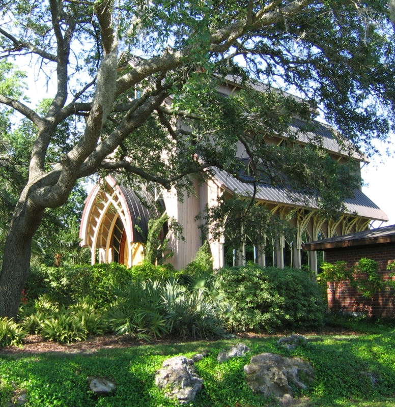 University of Florida - Baugham Meditation Center next to Lake Alice